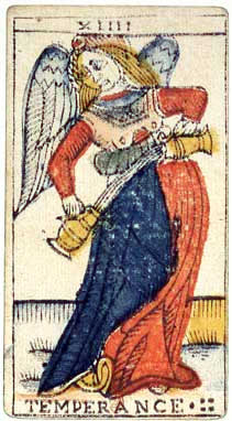 An original card from the tarot deck of Jean Dodal of Lyon, a classic Tarot of Marseilles deck which dates from 1701-1715.